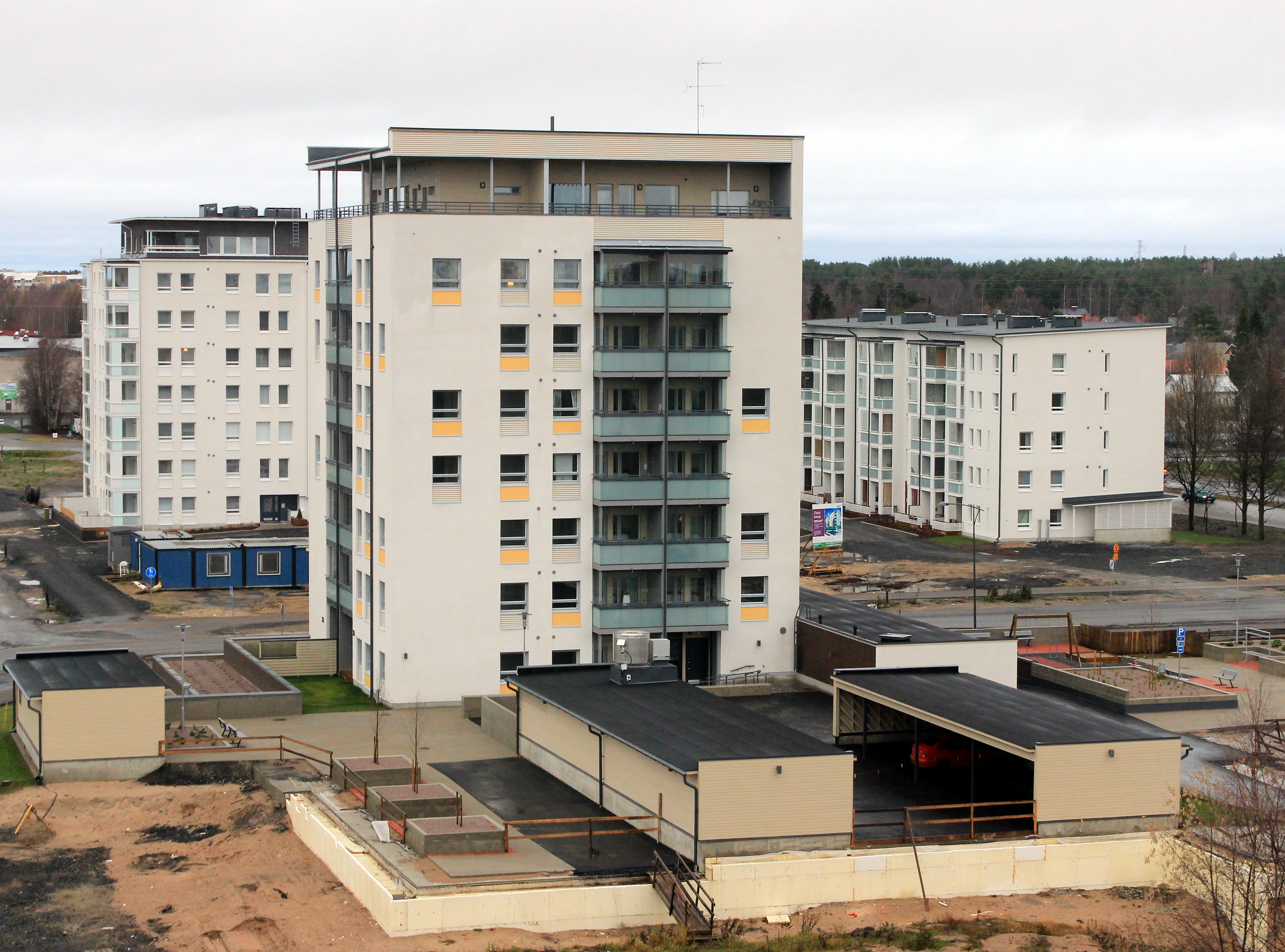 New apartment buildings in Toppila neighbourhood in Oulu.